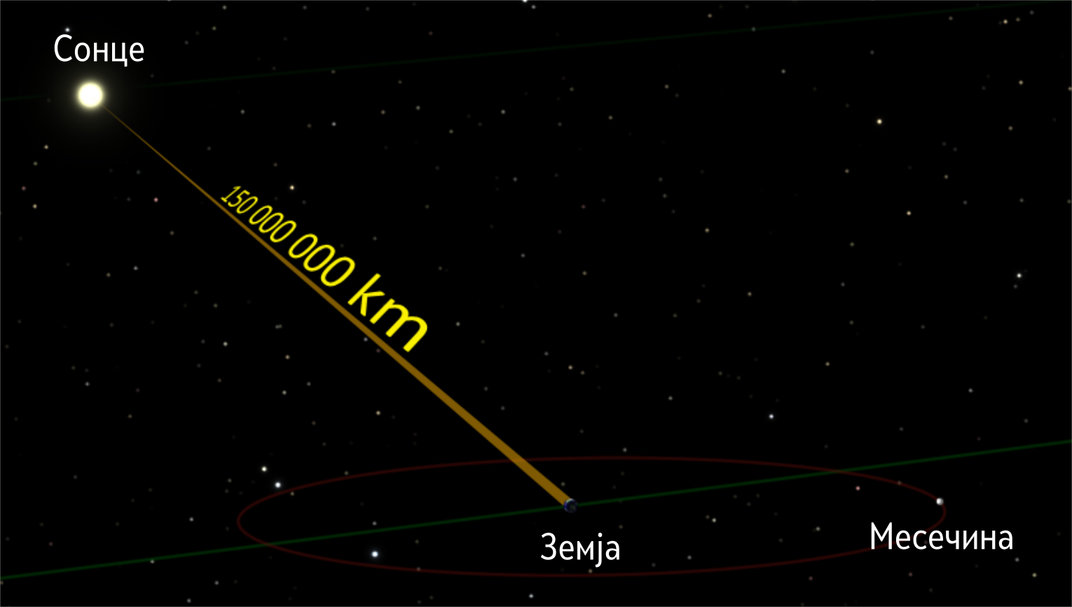 llustration of Earth's distance to the Sun with lables in Macedonian.